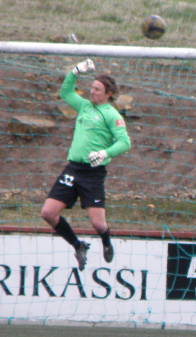 Stanislav Kuzma is a Slovenian goal keeper (football player). In 2010 he is playing for FC Suðuroy in the Faroe Islands. The year before he was playing for Olympiacos Nicosia from Cyprus He has been playing for several Slovenian football clubs: NK Nafta, NK Maribor, Korotan Prevalje and ND Beltinci. Føroyskt: Stanislav Kuzma er slovenskur fótbólts málverji, sum í 2010 spælir við besta liðnum hjá FC Suðuroy, sum spælir í Vodafonedeildini (2010). Stanislav hevur spælt við einum kypriotiskum fótbóltsfelag sum eitur Olympiakos Nicosia og við fleiri ymiskum fótbóltsfeløgum úr Slovenia. Henda myndin varð tikin 29. mai 2010, tá FC Suðuroy leikti móti HB. Úrslitið av tí dystinum gjørdist 0-3 (HB vann).